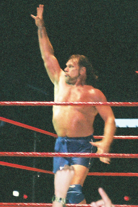 Hacksaw Jim Duggan at a WWE house show.